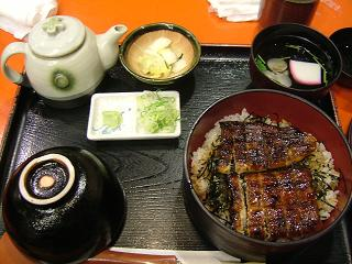 Hitsumabushi. Meal in Nagoya,Japan., Nagoya.